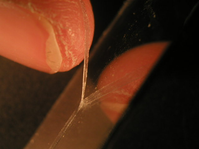 Peeling a flexible adhesive film consists in detaching it from a solid substrate.